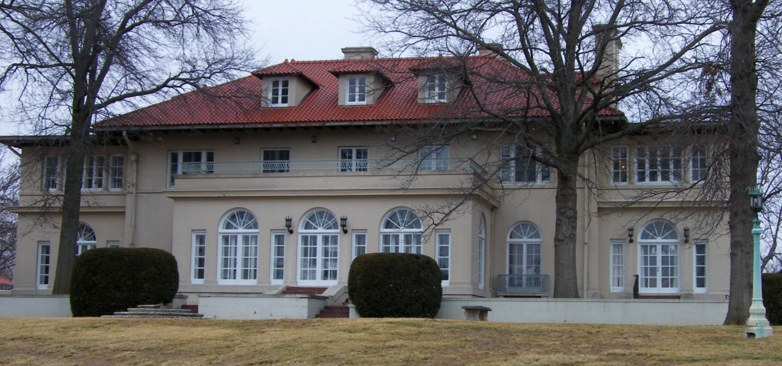 Huston Wyeth mansion in St. Joseph, Missouri